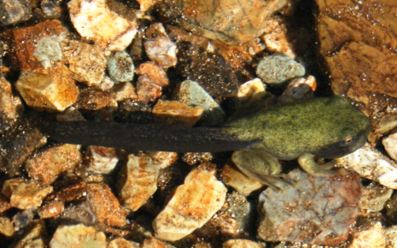 Rhacophorus arboreus in Yasyagaike, Fukui pref., Japan.